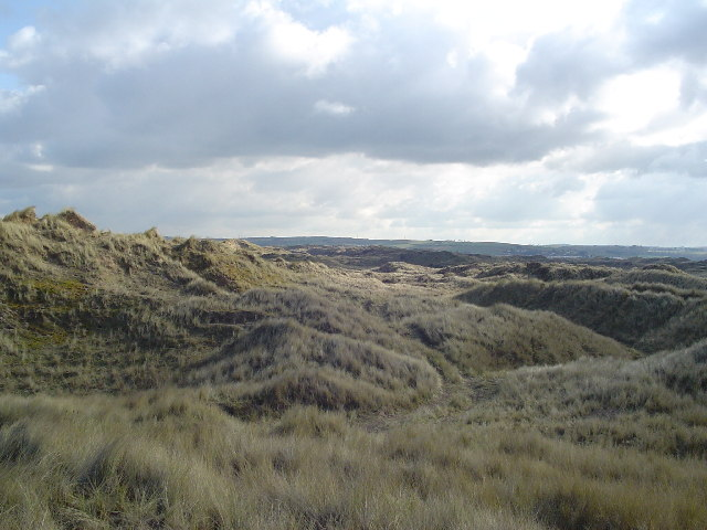 Dunes. Looking South